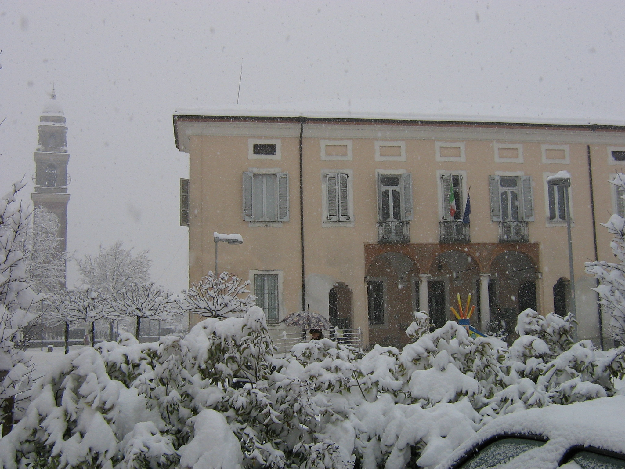 Castelverde: St. Archelao church's bell tower and town hall.